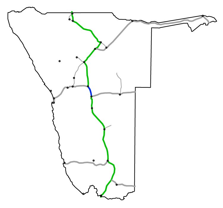 map of the National Road B1 in Namibia; blue = A1